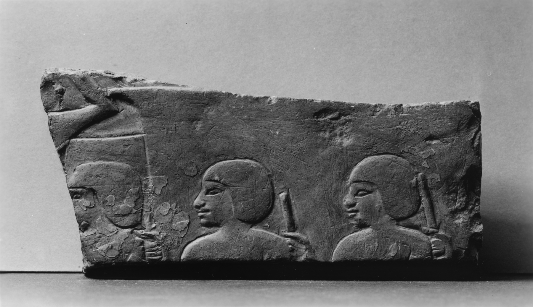 This wall fragment is carved in very low relief and depicts slaves with staffs. Visible are parts of four figures, facing the left. At the extreme left is a leg, possibly from offerings.